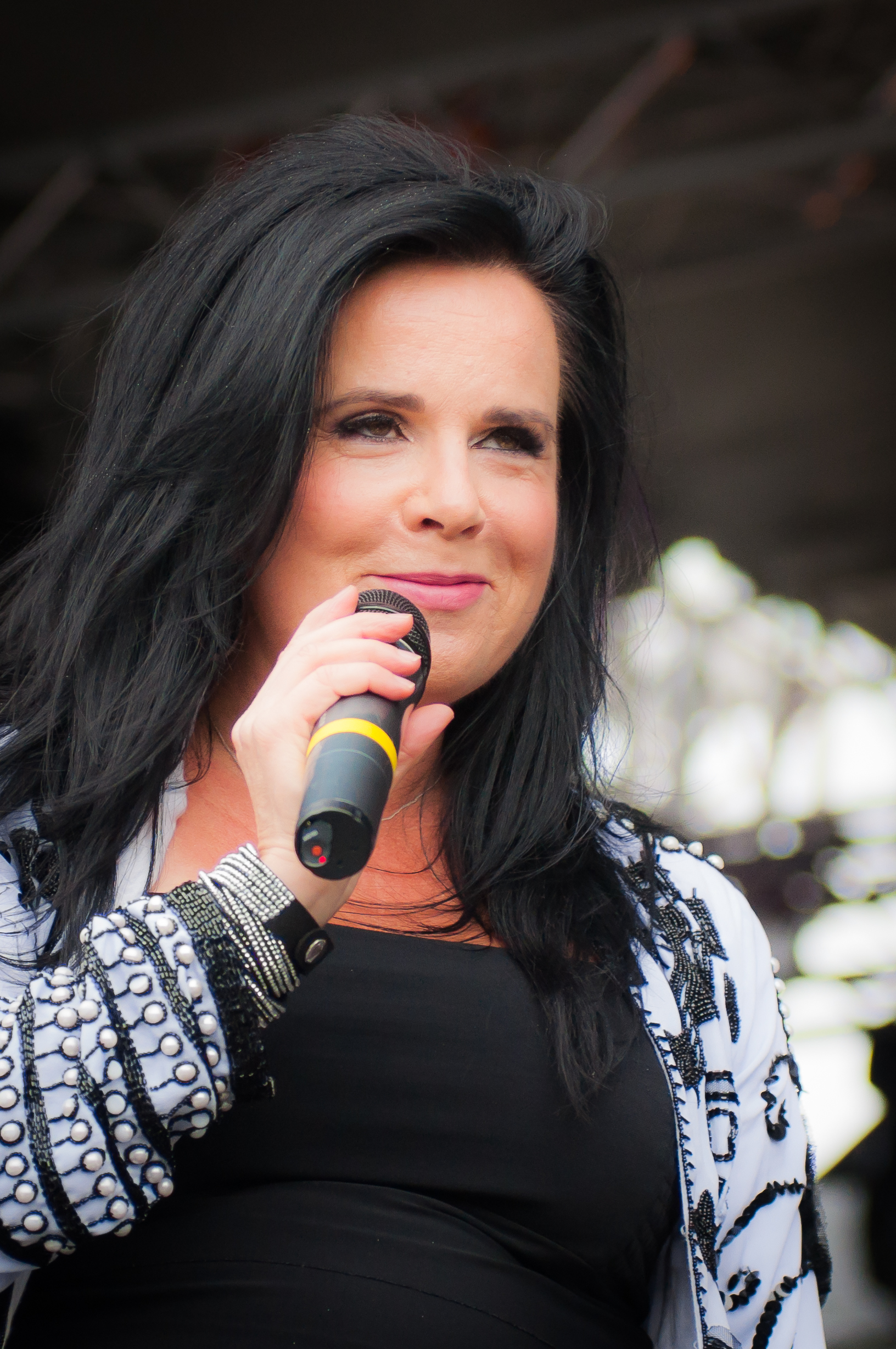 Finnish vocalist Kaija Koo performing at the Rakuunarock festival in Lappeenranta, Finland